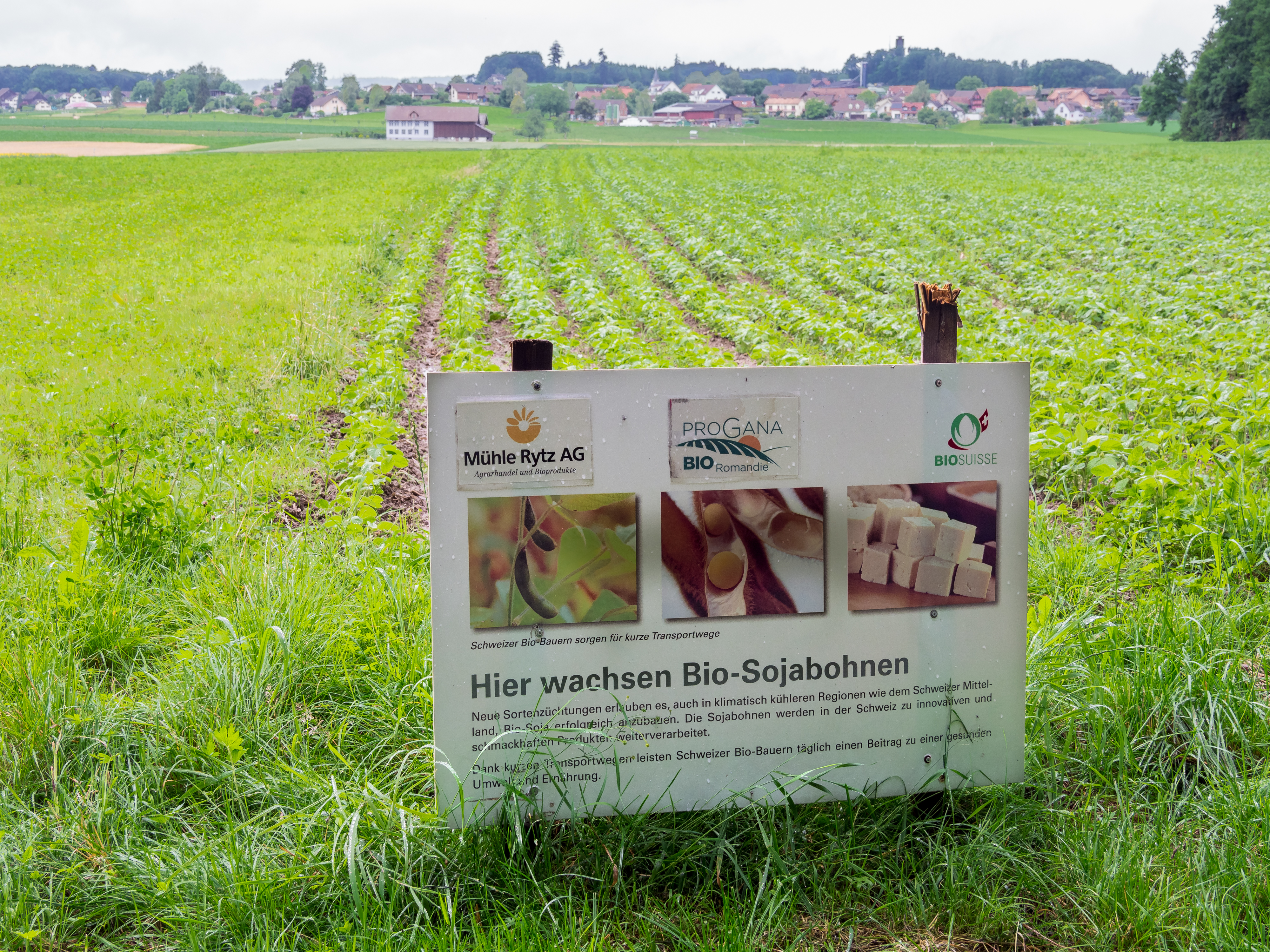 Organic Soybean cultivation near Wäldi, canton of Thurgau, Switzerland.